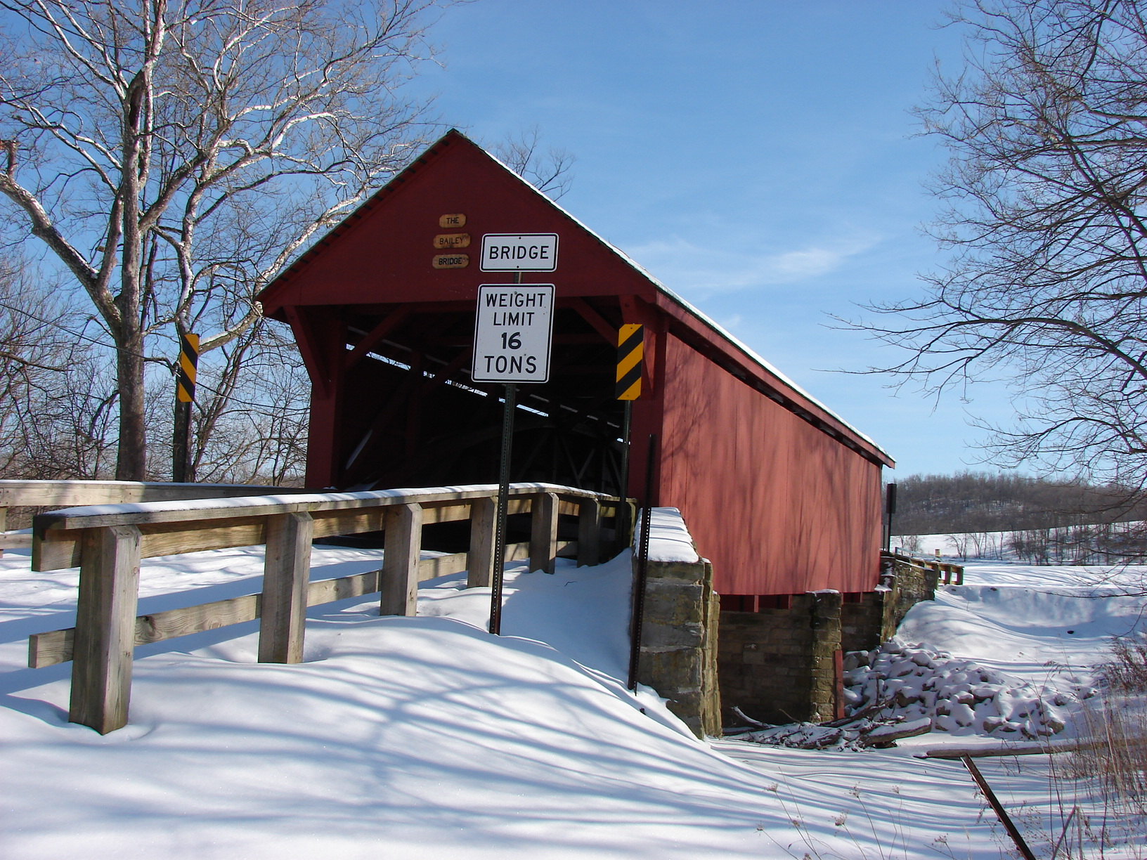 Side and end of the Bailey Covered Bridge, which carries Bailey Road over Ten Mile Creek southeast of Prosperity in Amwell Township, Washington County, Pennsylvania, United States. Built in 1889, it is listed on the National Register of Historic Places.